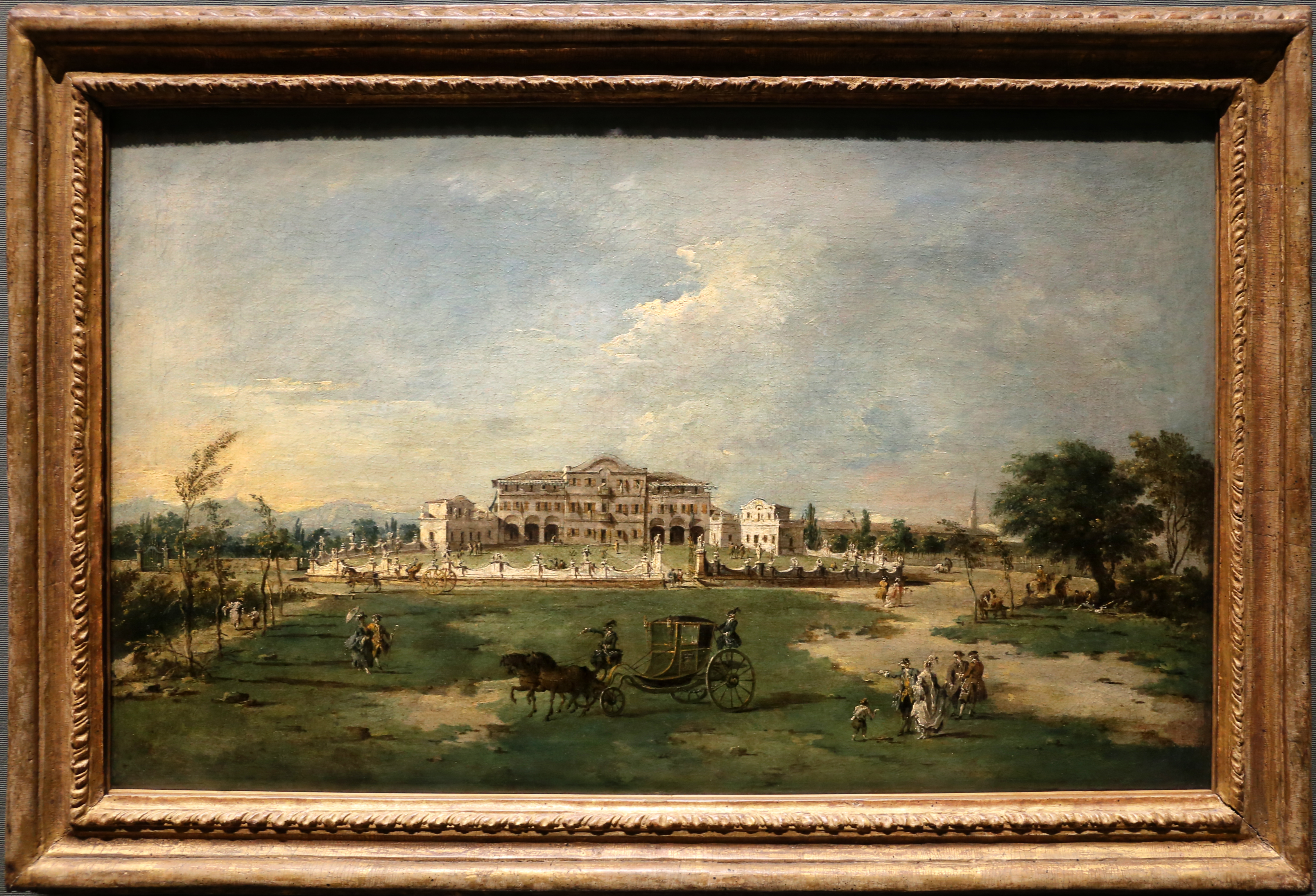 Italian Rococo paintings in the National Gallery, London